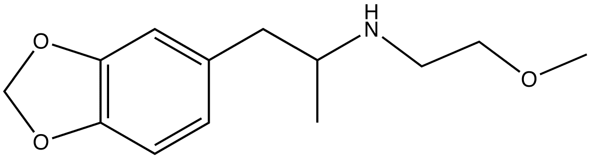 MDMEOET